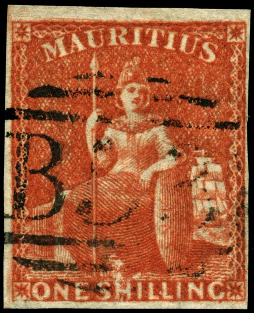 Mauritius 1 sh vermilion stamp of 1859, locally cancelled with code B 53. SG catalog 34